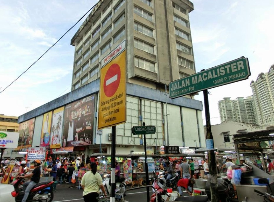 Hawkers at New Lane, off Macalister Road in George Town, Penang